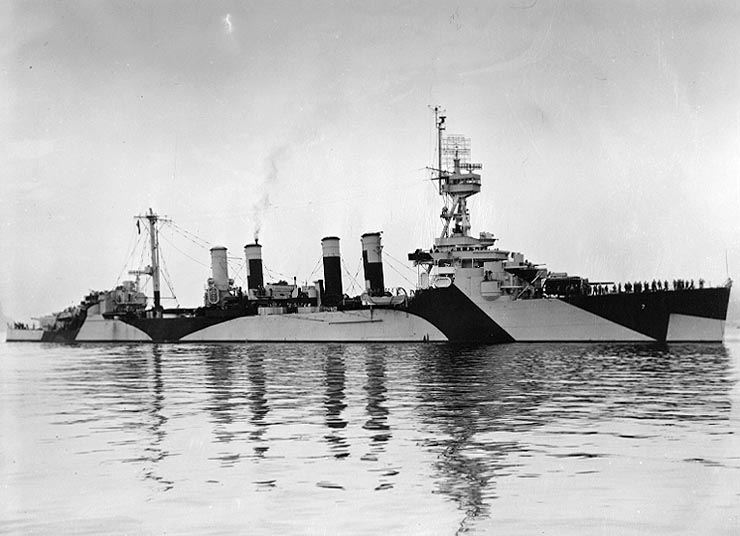 The U.S. Navy light cruiser USS Raleigh (CL-7) off the Puget Sound Naval Shipyard, Bremerton, Washington (USA), 25 May 1944, following overhaul. The ship is painted in Camouflage Measure 32, Design 1d. Photograph from the Bureau of Ships Collection in the U.S. National Archives.